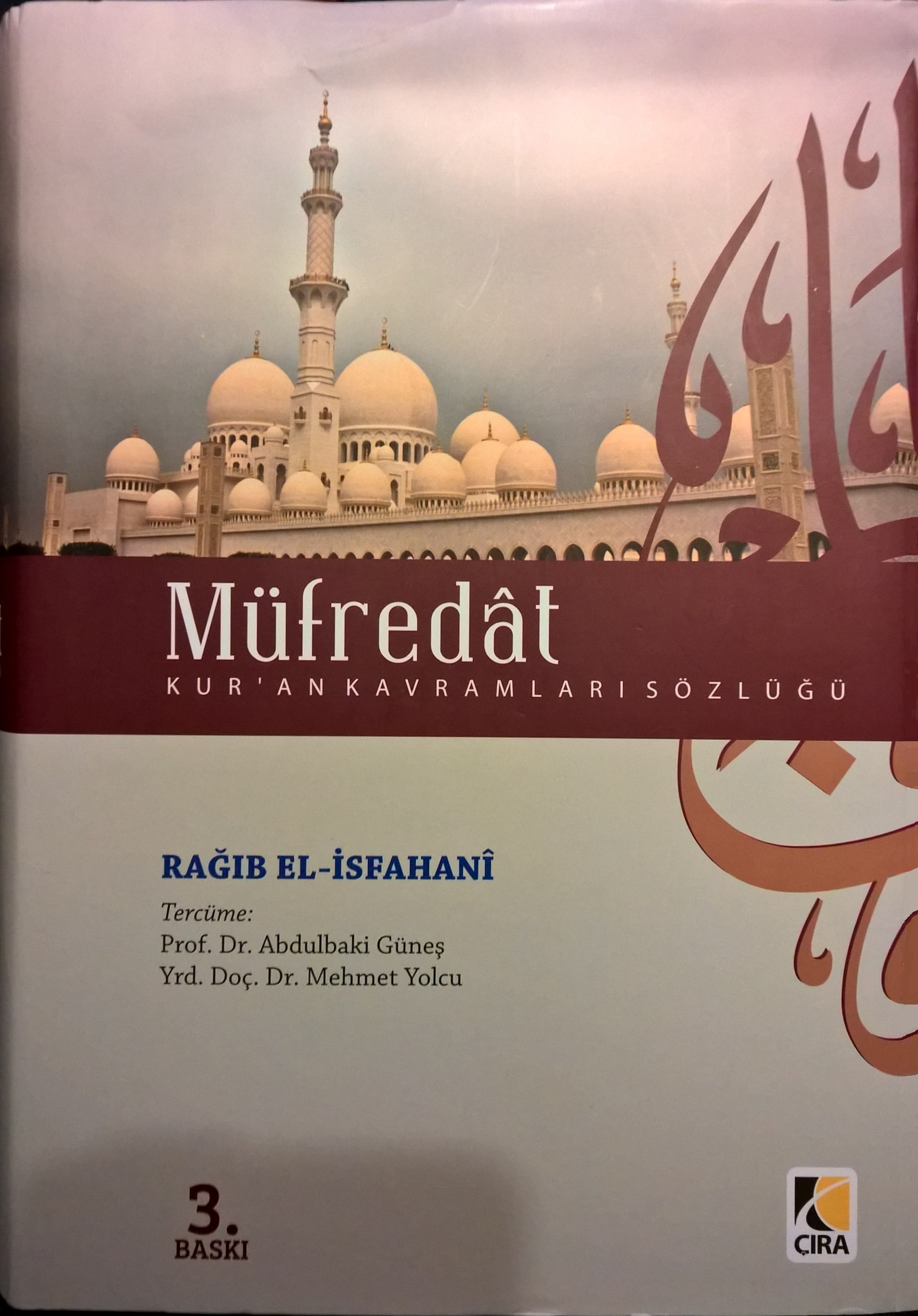 The cover of the book Al-Mufedât fî Gharîb al-Qur'ân in Turkish language